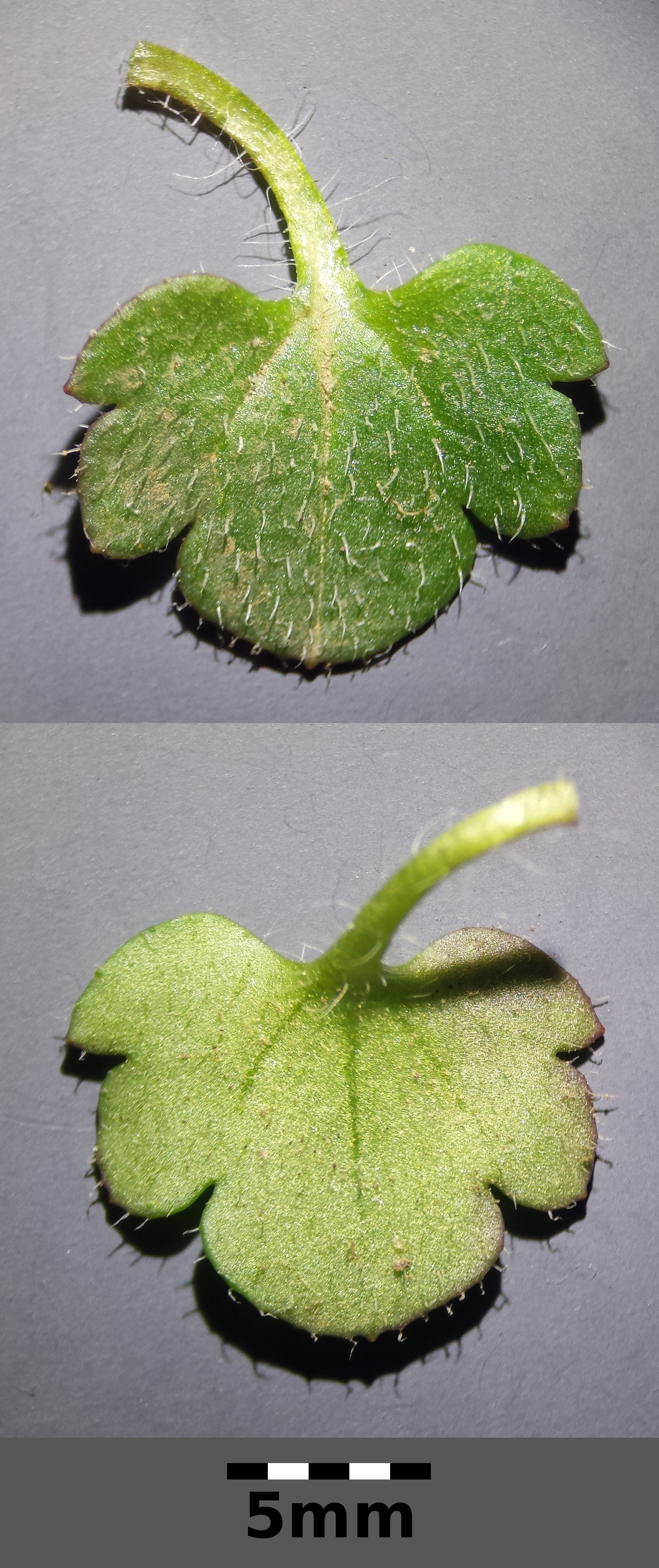 Bract: upper side and lower side Taxonym: Veronica hederifolia (s. str.) ss Fischer et al. EfÖLS 2008 ISBN 978-3-85474-187-9 Location: field near Alte Schanzen, Floridsdorf, Vienna - ca. 225 m a.s.l. Habitat: field